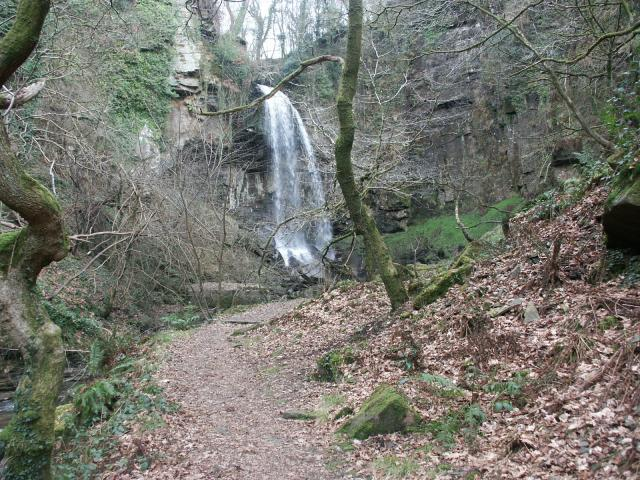 Depicted place: Melincourt Falls